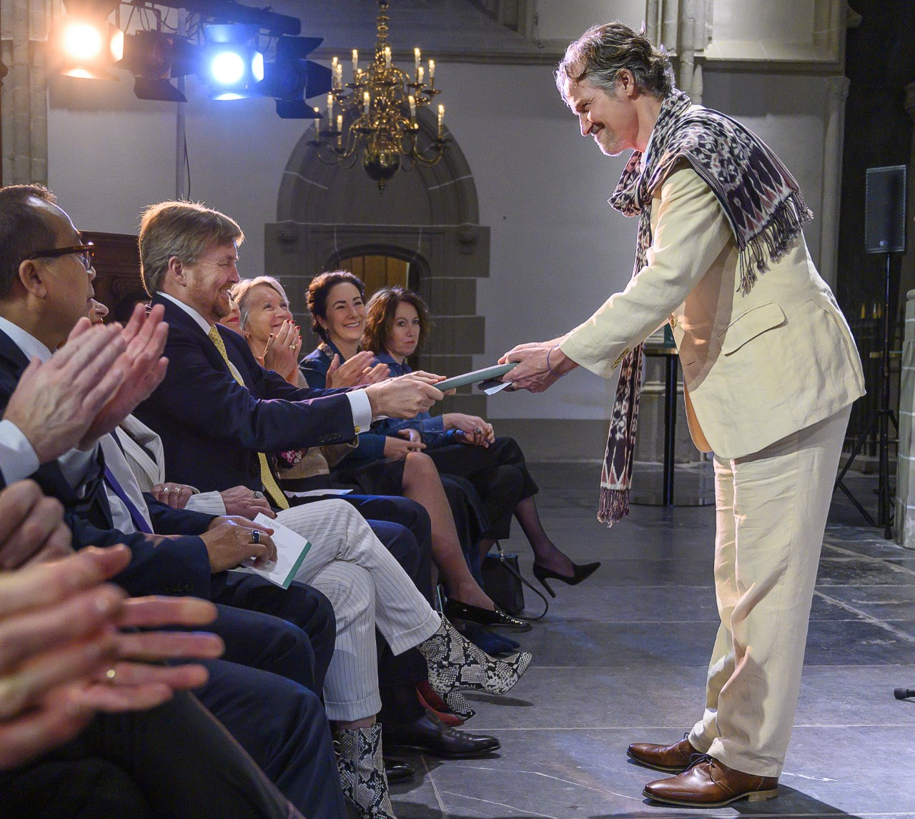 Start Multatuli anniversary year on 17 februari 2020 (picture taken by Evert Elzinga)